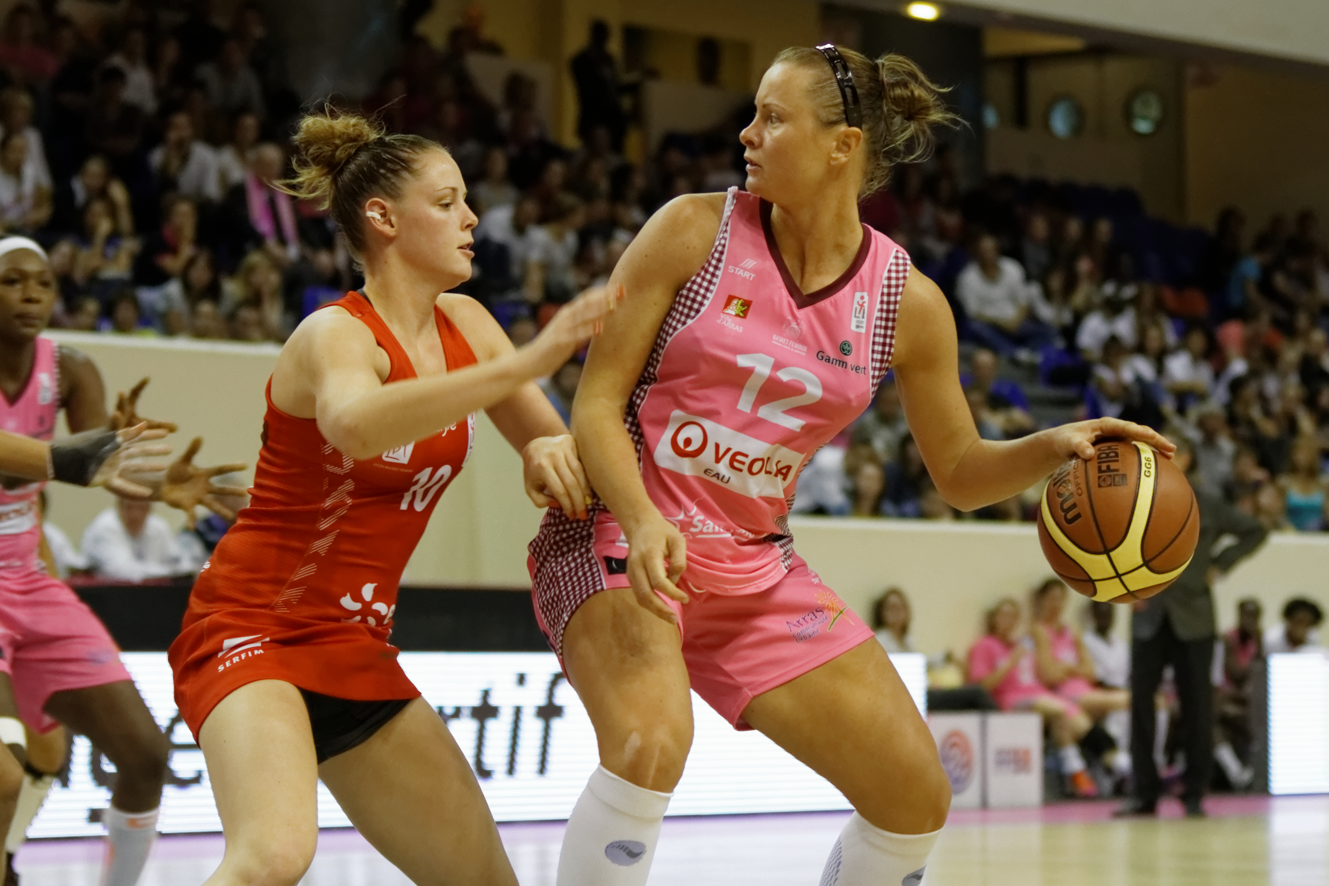 Open LFB, Arras-Lyon, October 6th, 2013.